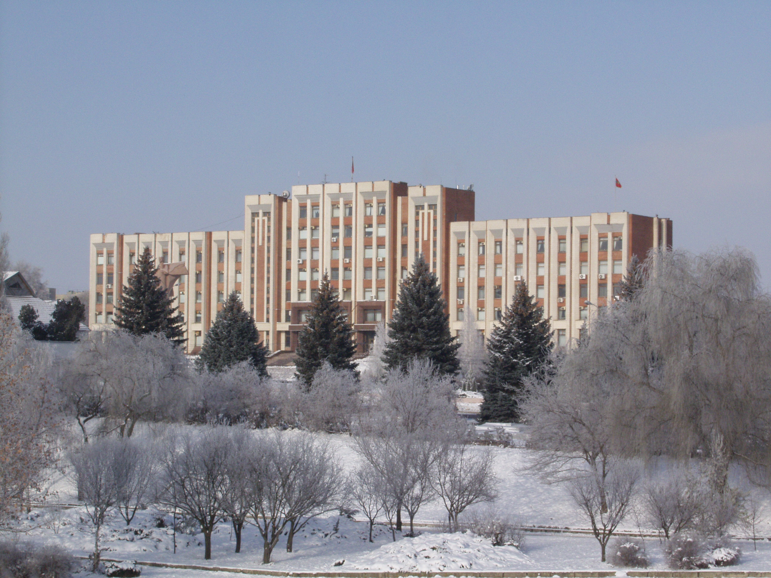 Transnistrian Government building in Tiraspol.